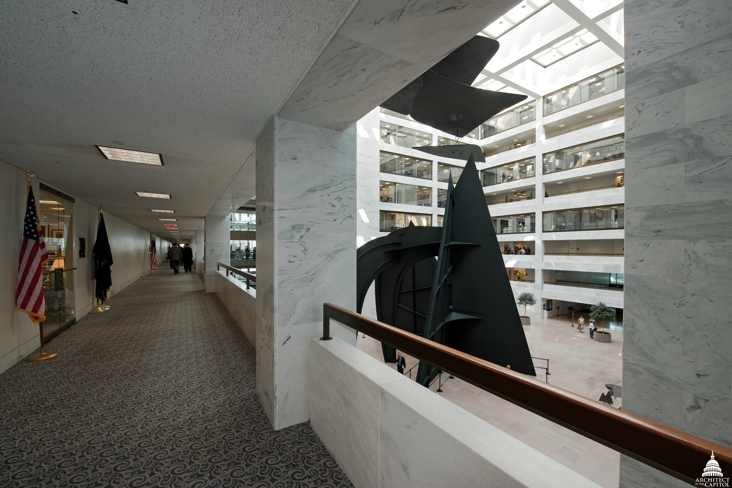 View of the arcade walkways which provide access for the public and congressional staff in the Hart Senate Office Building in Washington, D.C., in the United States. The atrium forms the interior of building, and a portion of the Alexander Calder mobile Mountains and Clouds, is visible.